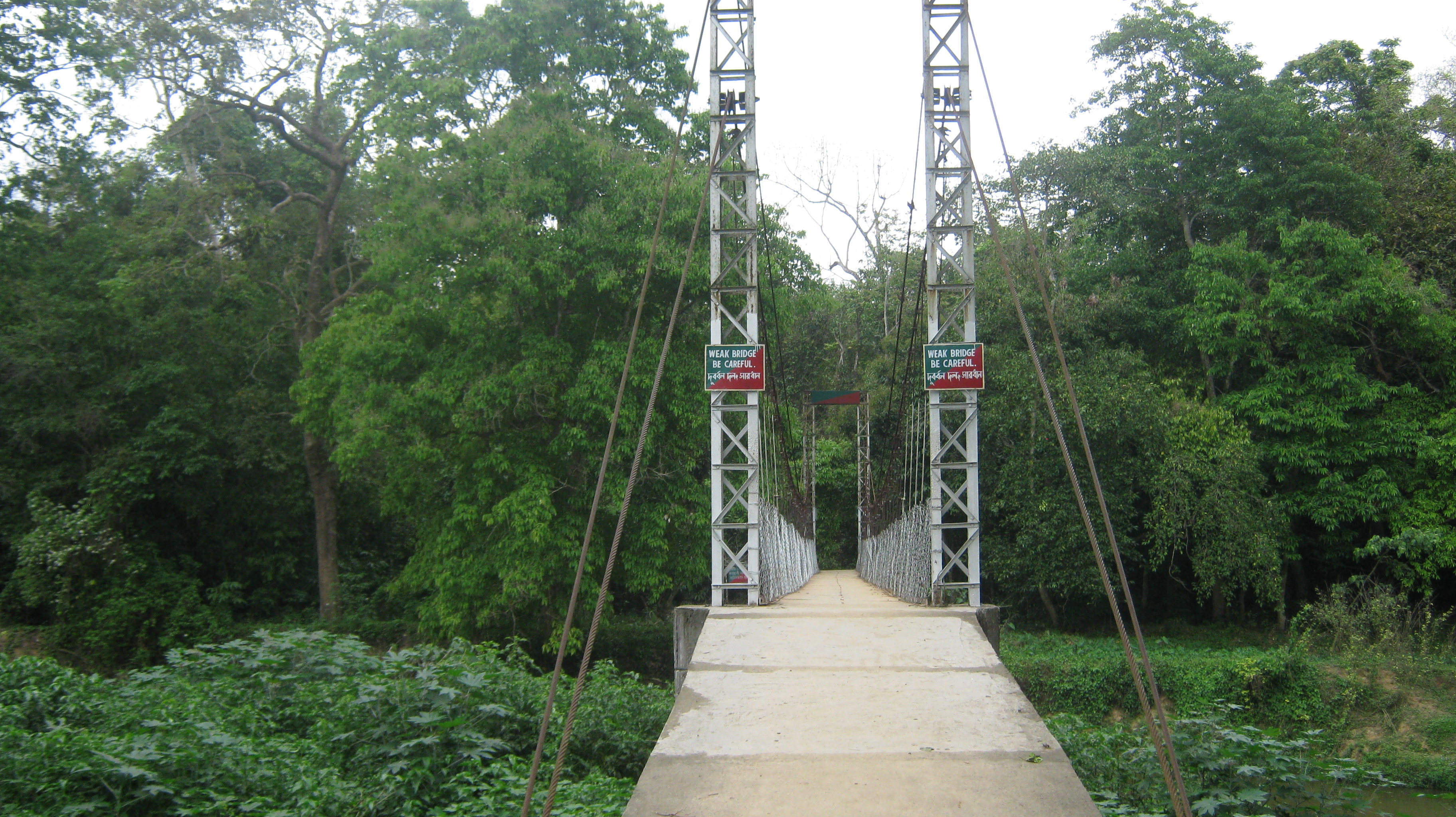 A hanging bridge at Garampani Wildlife Sanctuary, situated in Karbi Anglong District of Assam (India) অসমীয়া: গৰমপানী অভয়াৰণ্যৰ এখন ওলমা সাঁকো।